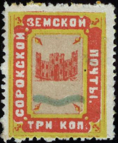 Soroca Fort